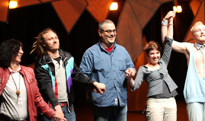 João Garcia Miguel and the students of Norwegian Theatre Academy at the premiere of the show "Look at me now, Here I am"